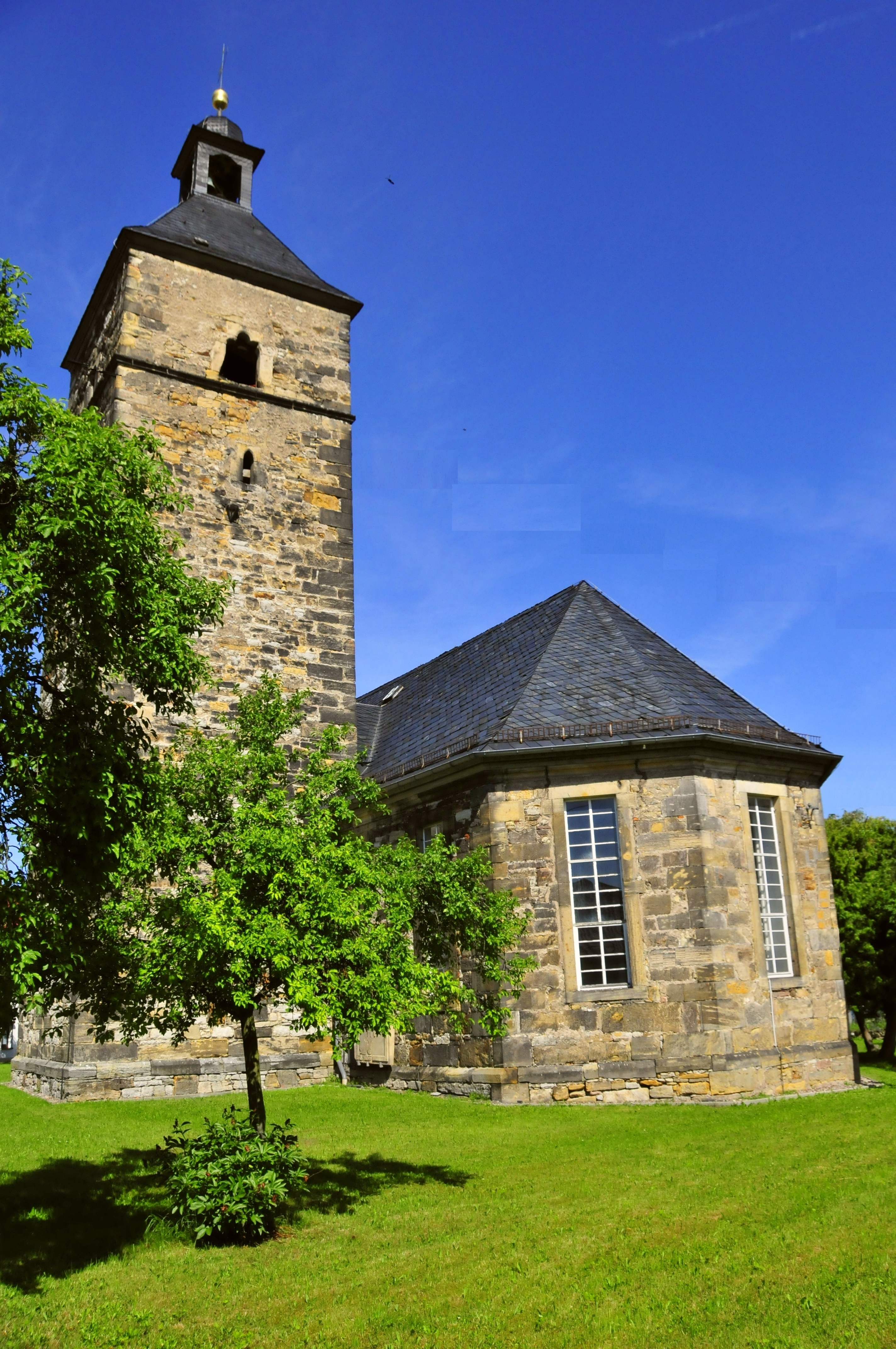 Church in Leina (Leinatal)